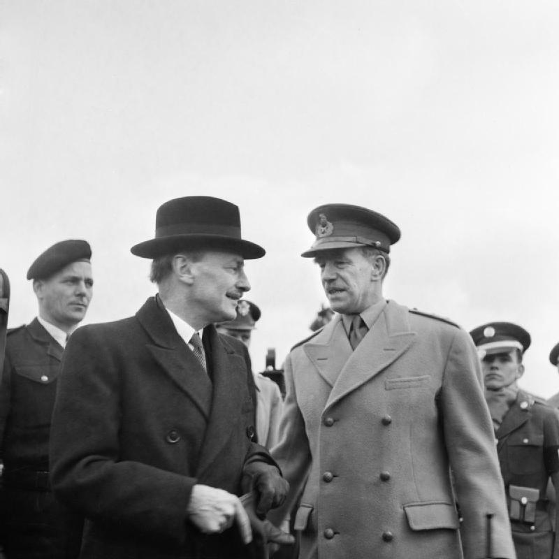 IWM caption : The Berlin Blockade, 1949. The British Prime Minister, Clement Attlee, visits Berlin to view the Airlift in operation. Mr Attlee with General Sir Brian Robertson, Commander-in-Chief of British Forces Germany and Military Governor of the British zone, at Tempelhof Airport.